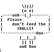 ASCII art as used on Usenet.